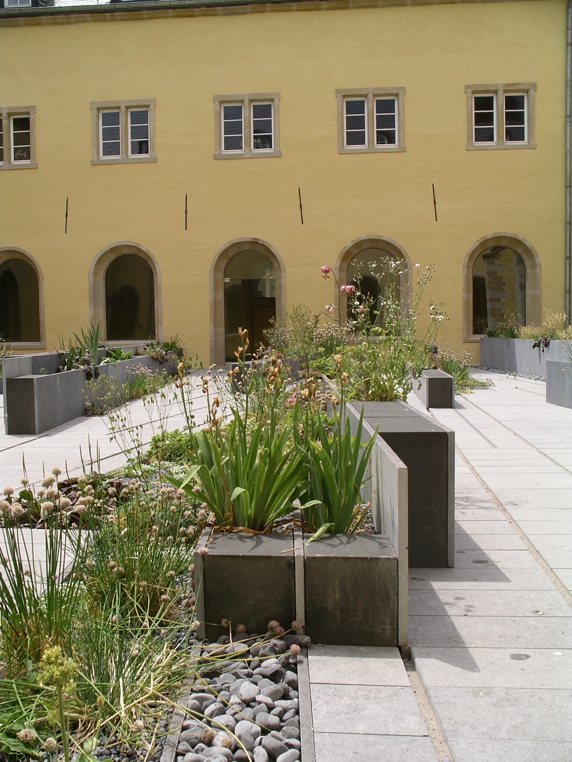 Luxembourg, Grund, Neumunster Abbey